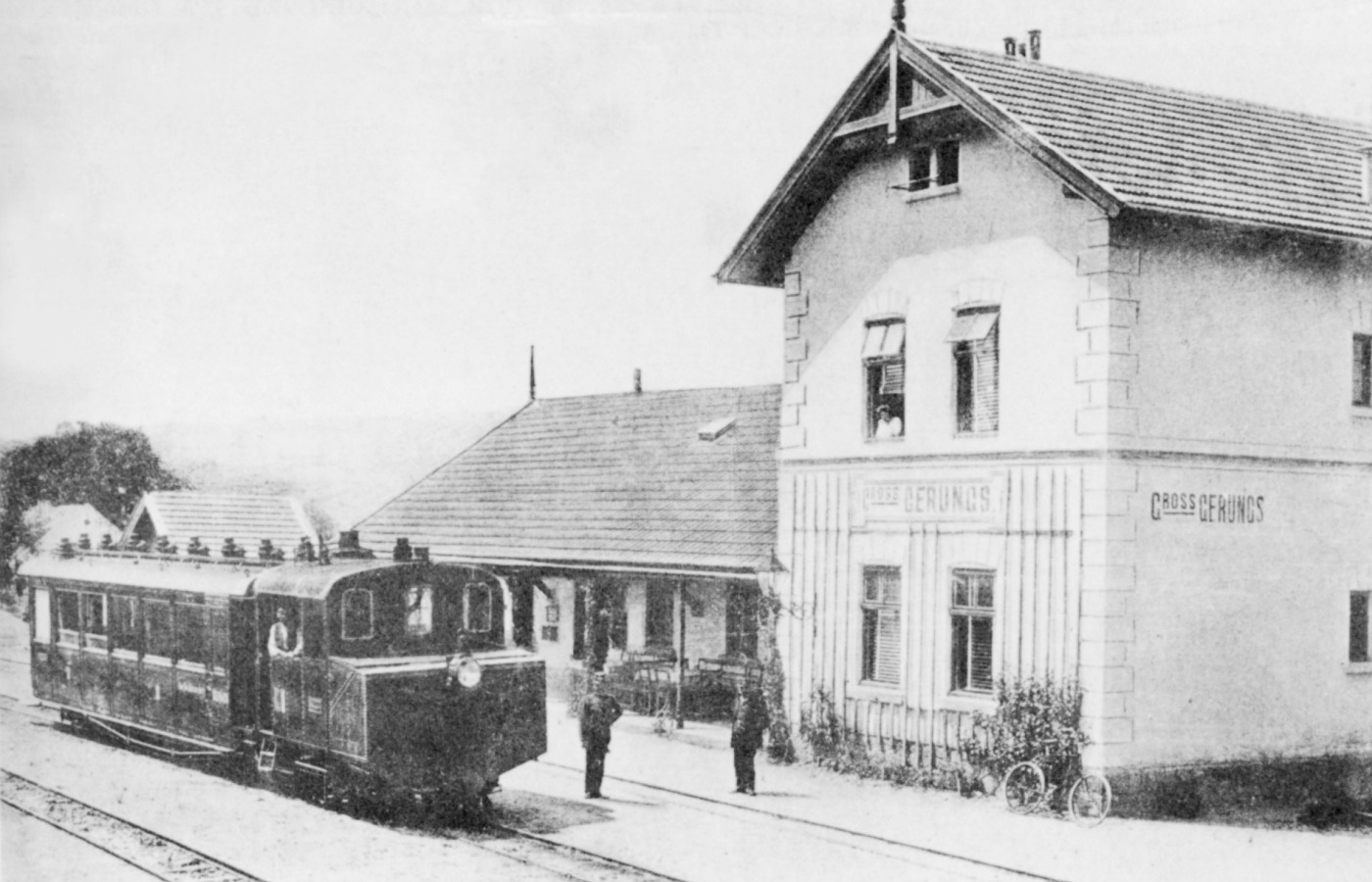 Heavy steam railcar at Groß Gerungs station on the Waldviertler Schmalspurbahnen, Lower Austria